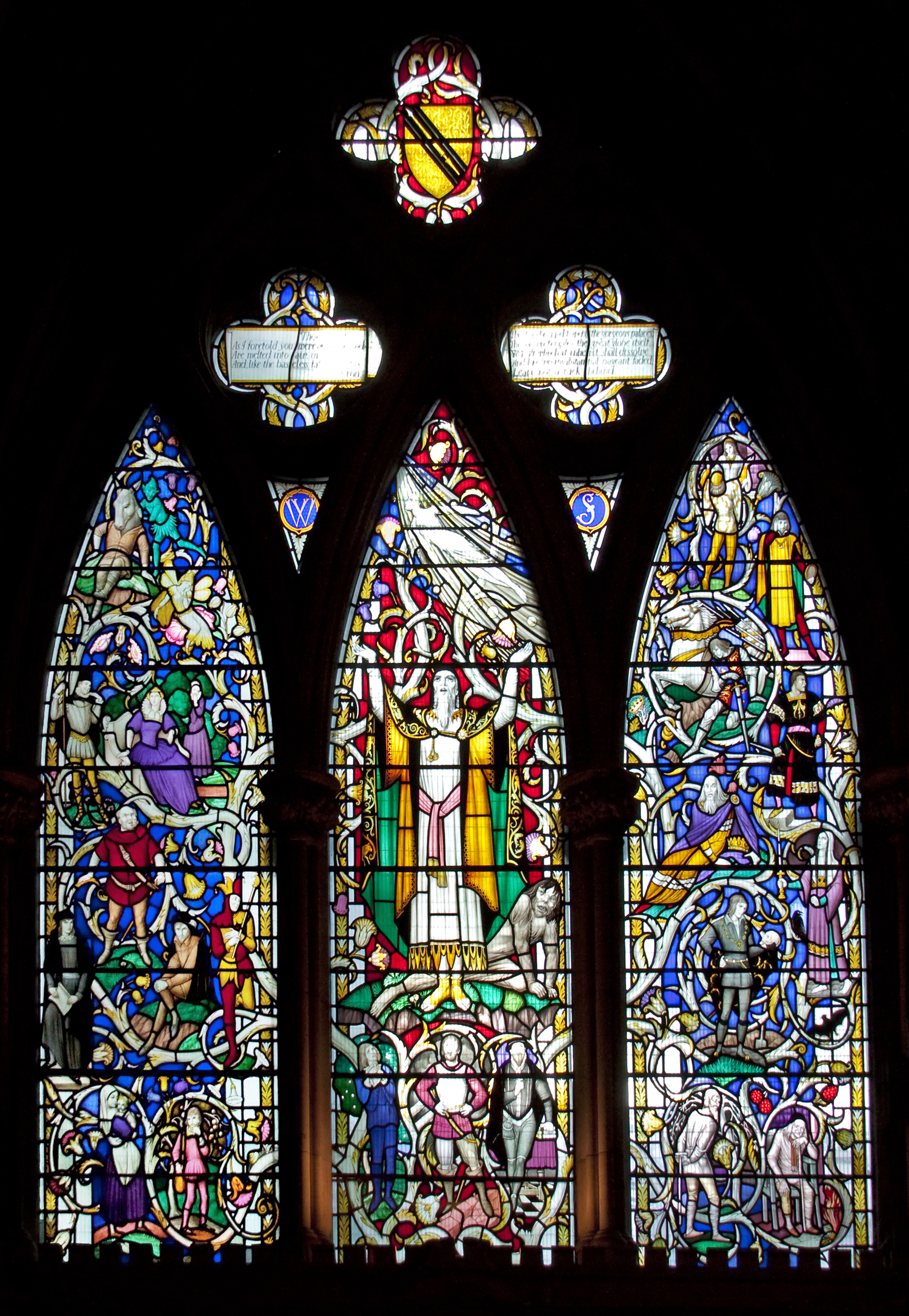 Shakespeare window Southwark Cathedral